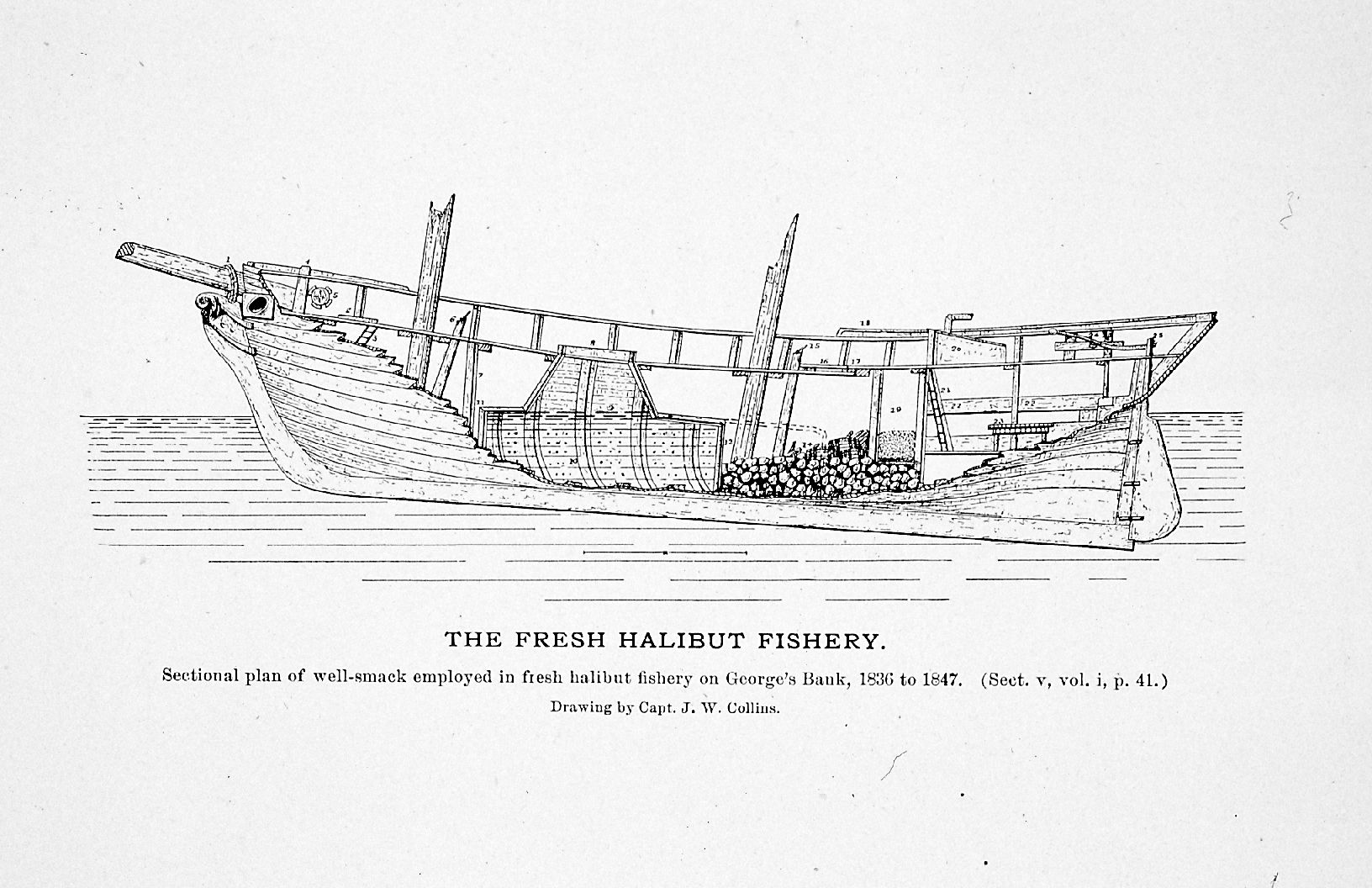 Sectional plan of well-smack employed in the fresh halibut fishery As used on George's Bank 1836 to 1845 Drawing by Capt. J.W. Collins. Image ID: figb0005, NOAA's Historic Fisheries Collection Credit: NOAA National Marine Fisheries Service tuned version